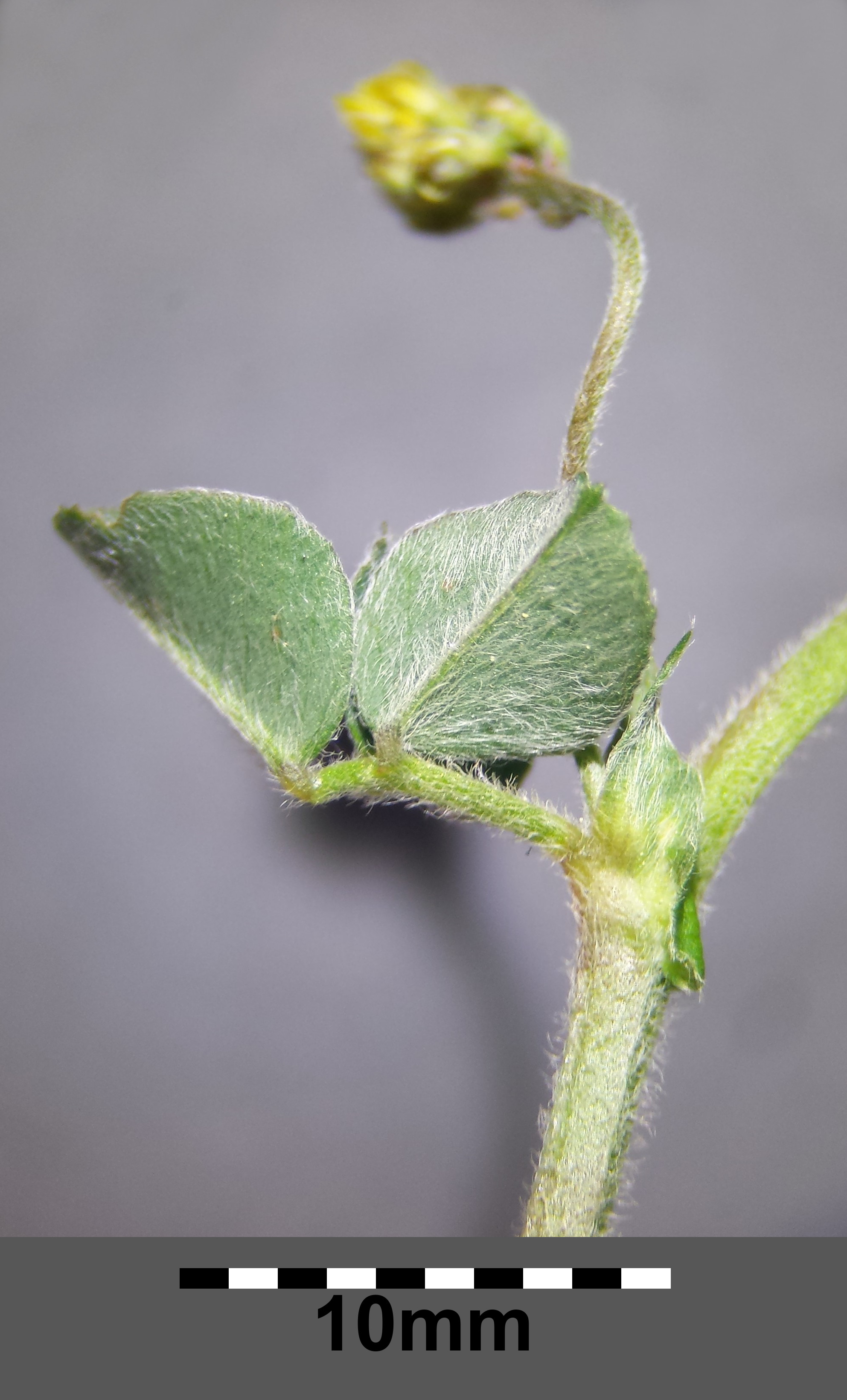 Stipe with leaf, stipules and inflorescence Taxonym: Medicago lupulina ss Fischer et al. EfÖLS 2008 ISBN 978-3-85474-187-9 Location: Neue Donau, Vienna-Floridsdorf - ca. 160 m a.s.l. Habitat: dry meadows